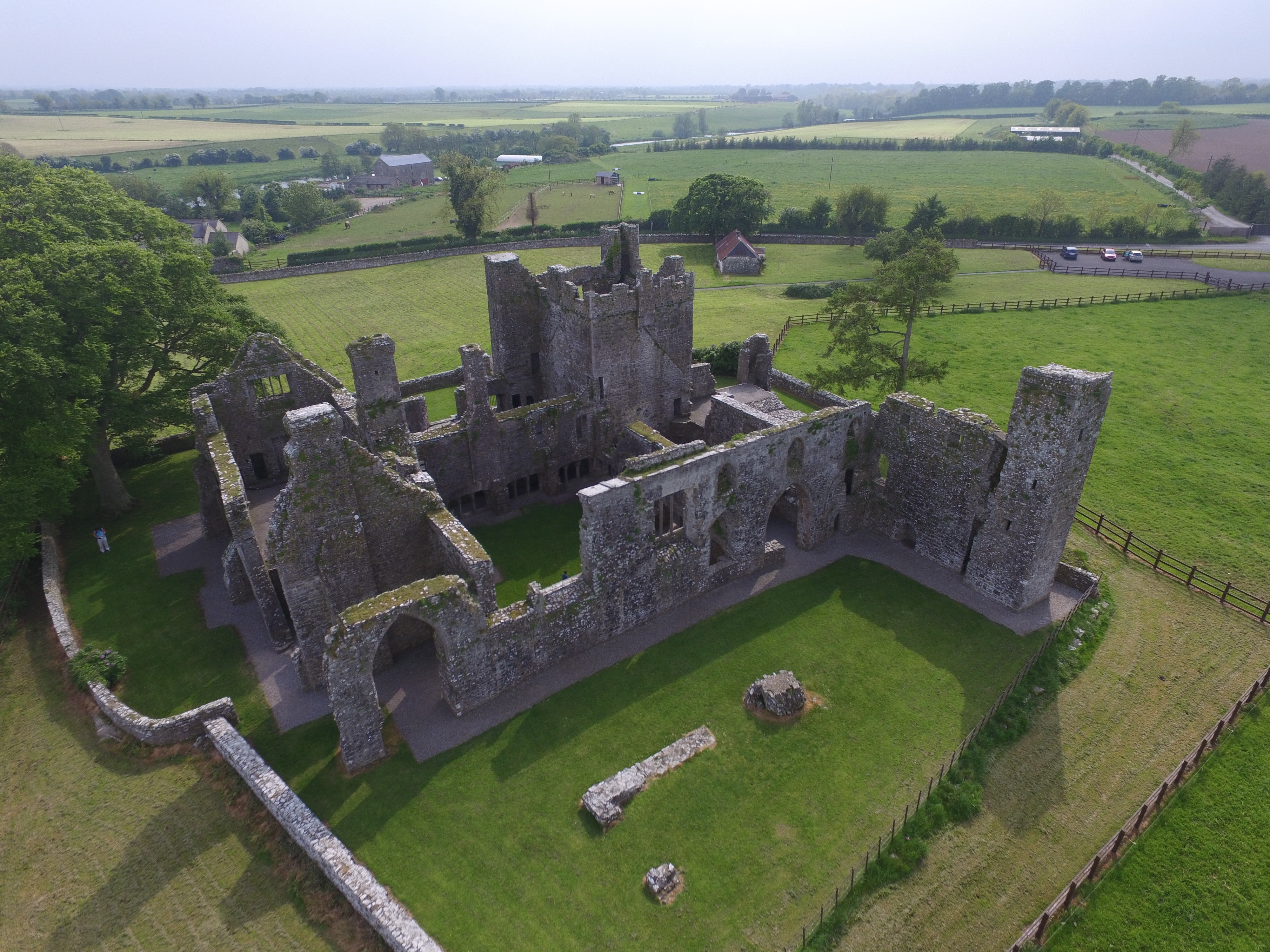 Photo of Bective Abbey taken in May 2016 on a Phantom 3 Drone.